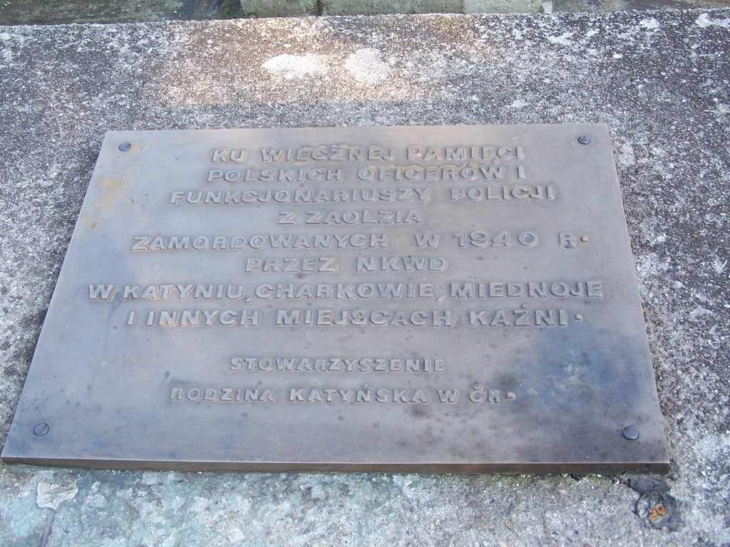 Plaque at World War II memorial in Český Těšín (Czeski Cieszyn) dedicated to all WWII Polish officers and soldiers from Zaolzie killed in 1940 by NKVD in Katyń massacre.